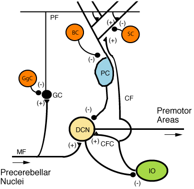 Diagram of the cerebellar circuitry. Excitatory synapses are denoted by (+) and inhibitory synapses by (-). MF: Mossy fibers. DCN: Deep cerebellar nuclei. IO: Inferior Olive. CF: Climbing fiber. CFC: Climbing fiber collateral. GC: Granule Cell. PF: Parallel fiber. PC: Purkinje Cell. GgC: Golgi Cell. SC: Stellate Cell. BC: Basket Cell.